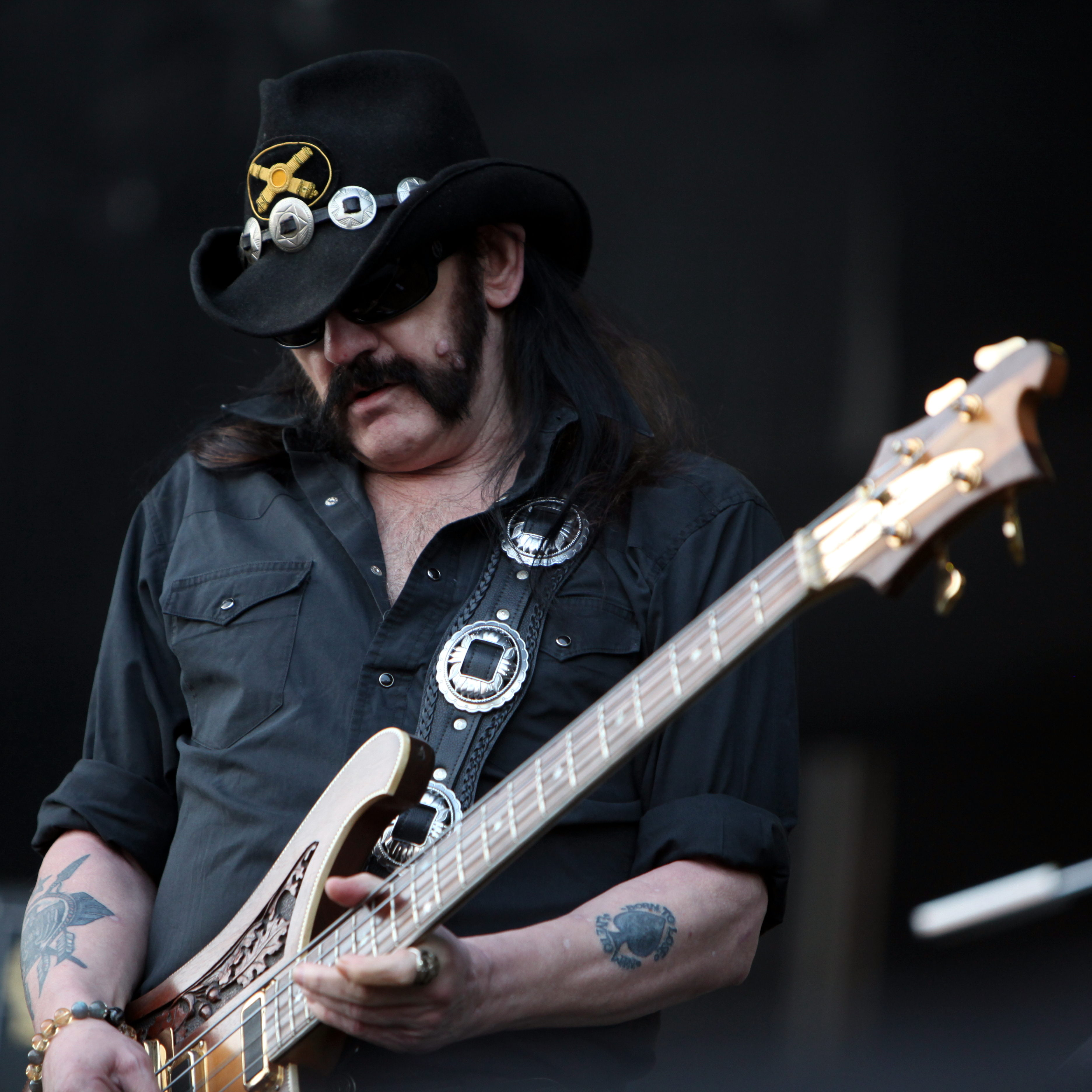 Motörhead at the Eurockéennes de Belfort 2011 The making of this document was supported by Wikimedia CH. (Submit your project!) For all the files concerned, please see the category Supported by Wikimedia CH.